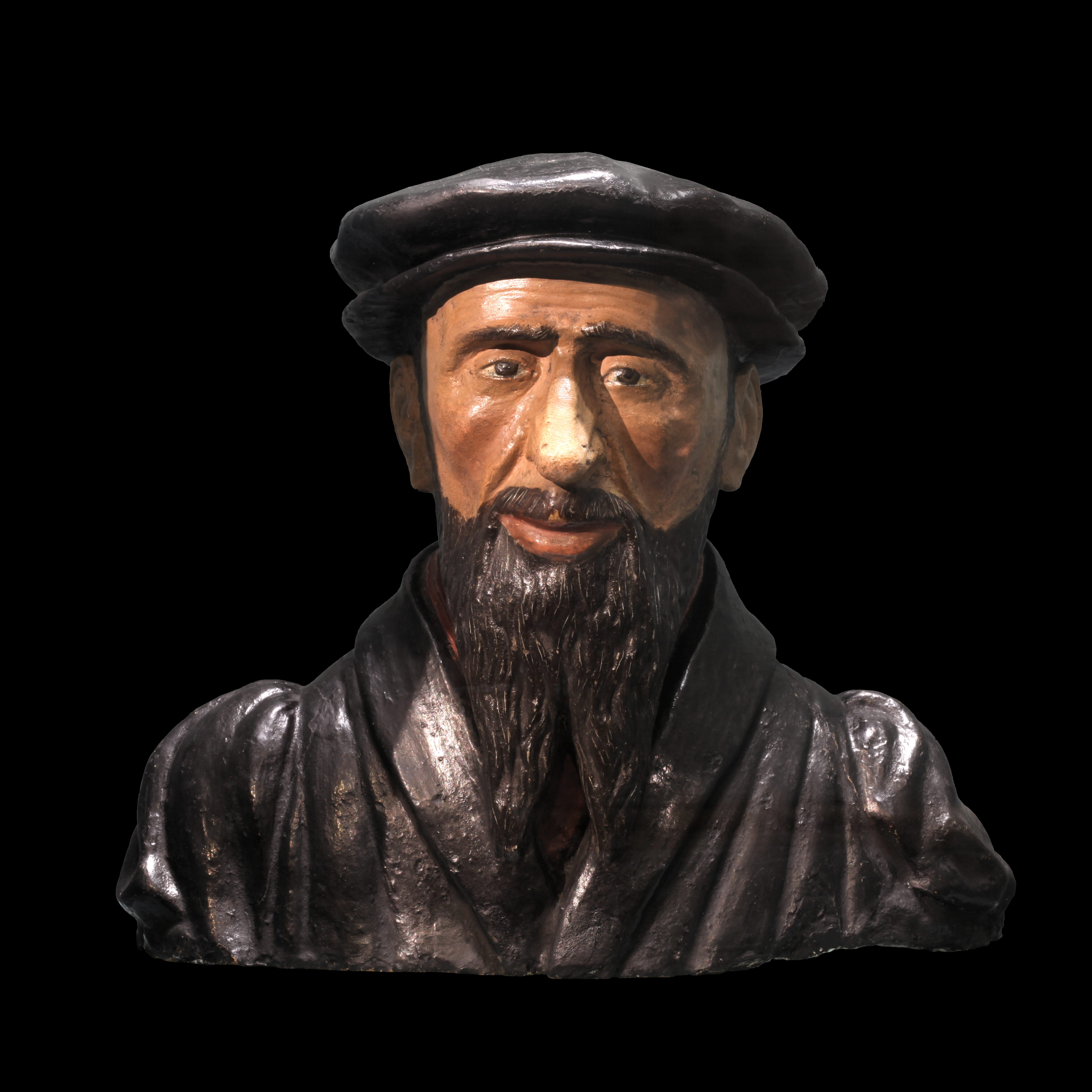 Depicted person: William Farel